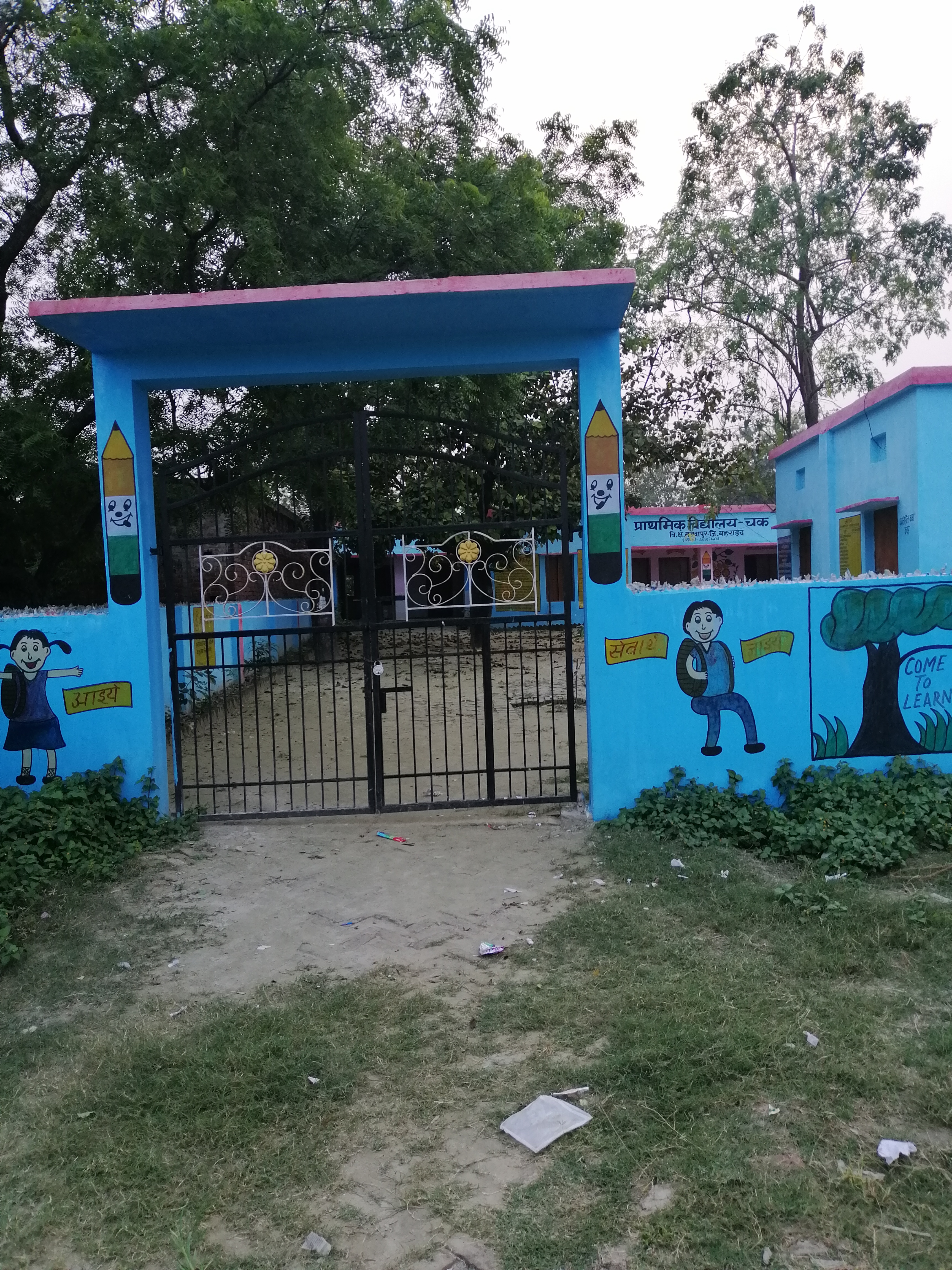 It is an elementary school. There is a village level school. Classes are taught here till 5th standard.